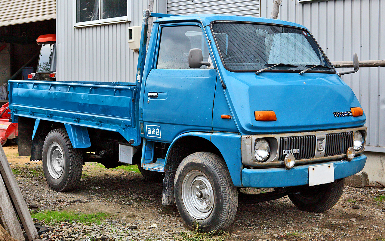 Third generation Toyota Toyoace 1.5 tonner Deluxe (RY12-JRB)